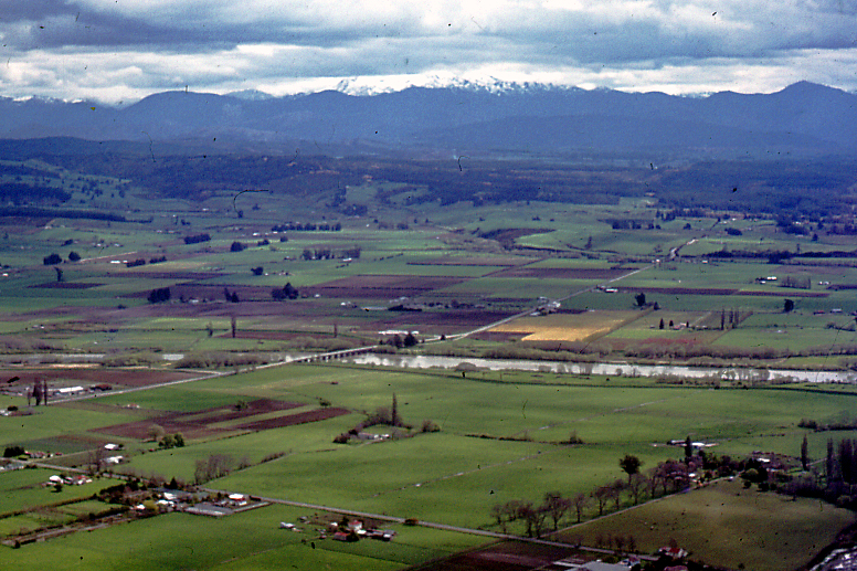 En route Nelson to Greymouth.